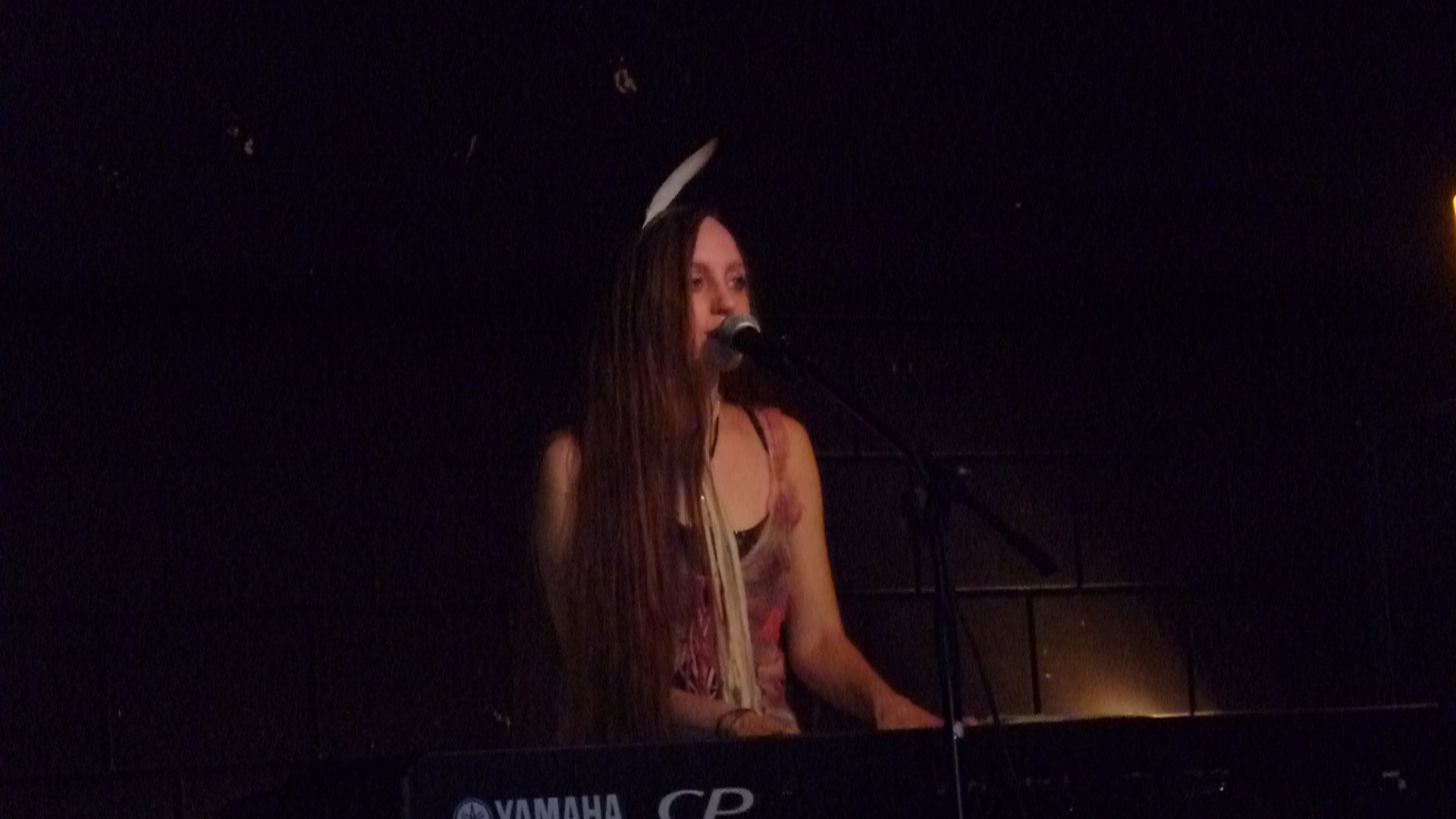 Amanda Rogers live at the JUZ Saarlouis